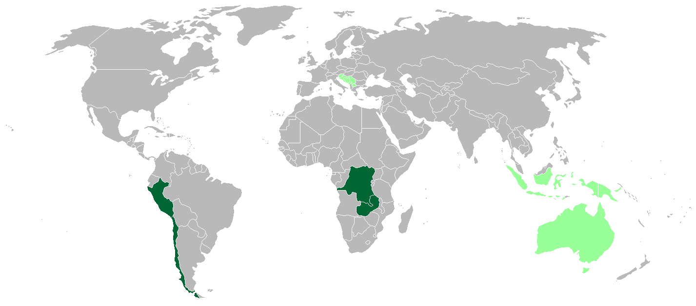 en map of members of Intergovernmental Council of Copper Exporting Countries